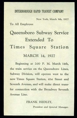 This is a pamphlet given out by the IRT Company to its employees to announce the extension of the IRT Flushing Line to Times Square.